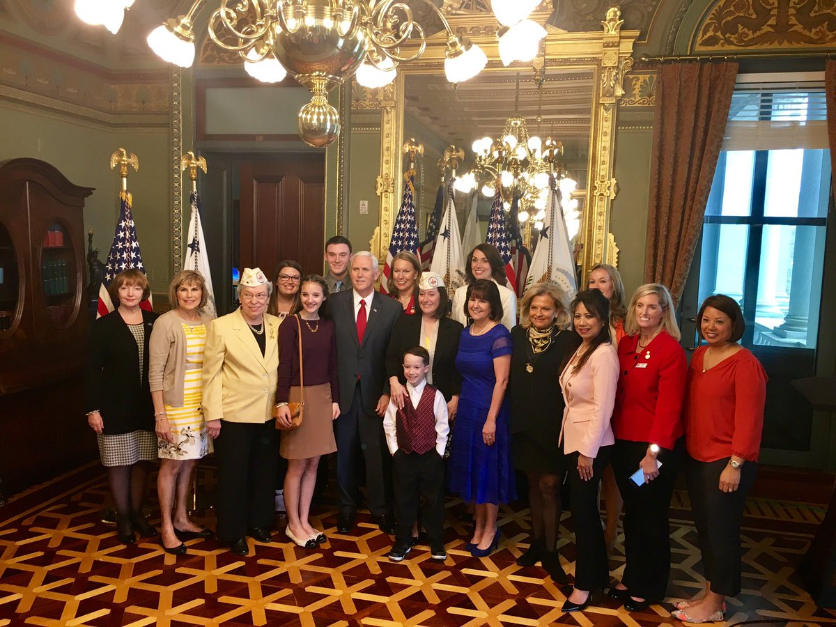 On this National Gold Star Wives Day, the @VP and I honored those whose husbands made the ultimate sacrifice.